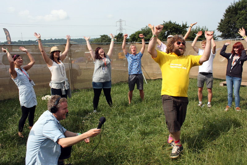 Laughter Yoag at Worthy FM HQ